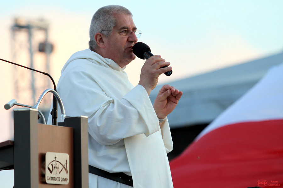 Lednica, 05.06.2010. XIV Ogólnopolskie Spotkanie Młodych Lednica 2000 odbywające się w tym roku pod hasłem 'Kobieta - dar i tajemnica'. N/z Ojciec Jan Góra (ac) PAP/Adam Ciereszko